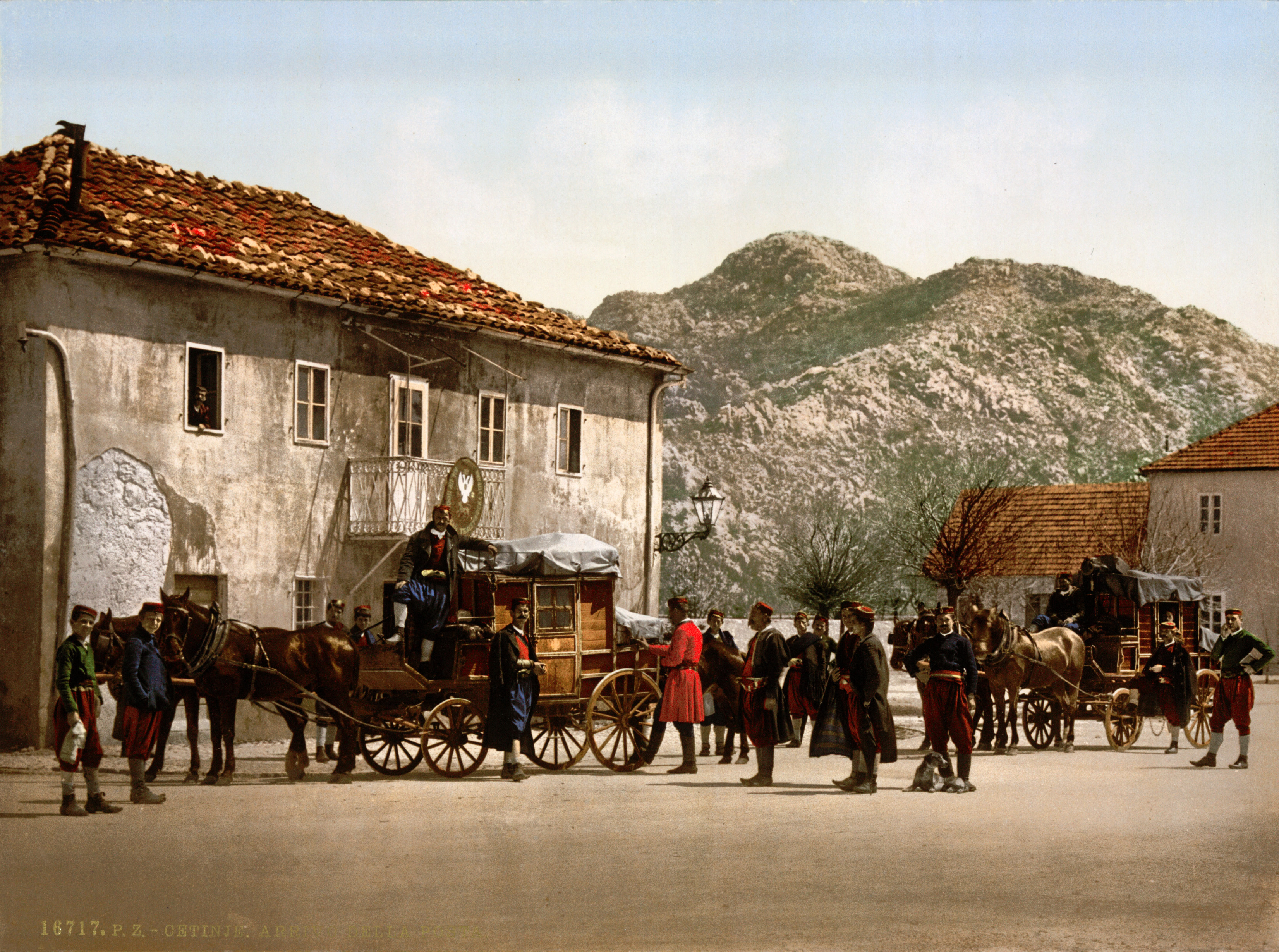 Arrival of the post, Cetinje, Montenegro. 1 photomechanical print : photochrom, color.